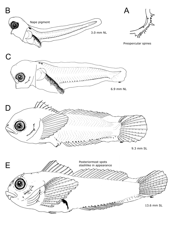 Stages of development in the scalyhead sculpin (Artedius harringtoni).